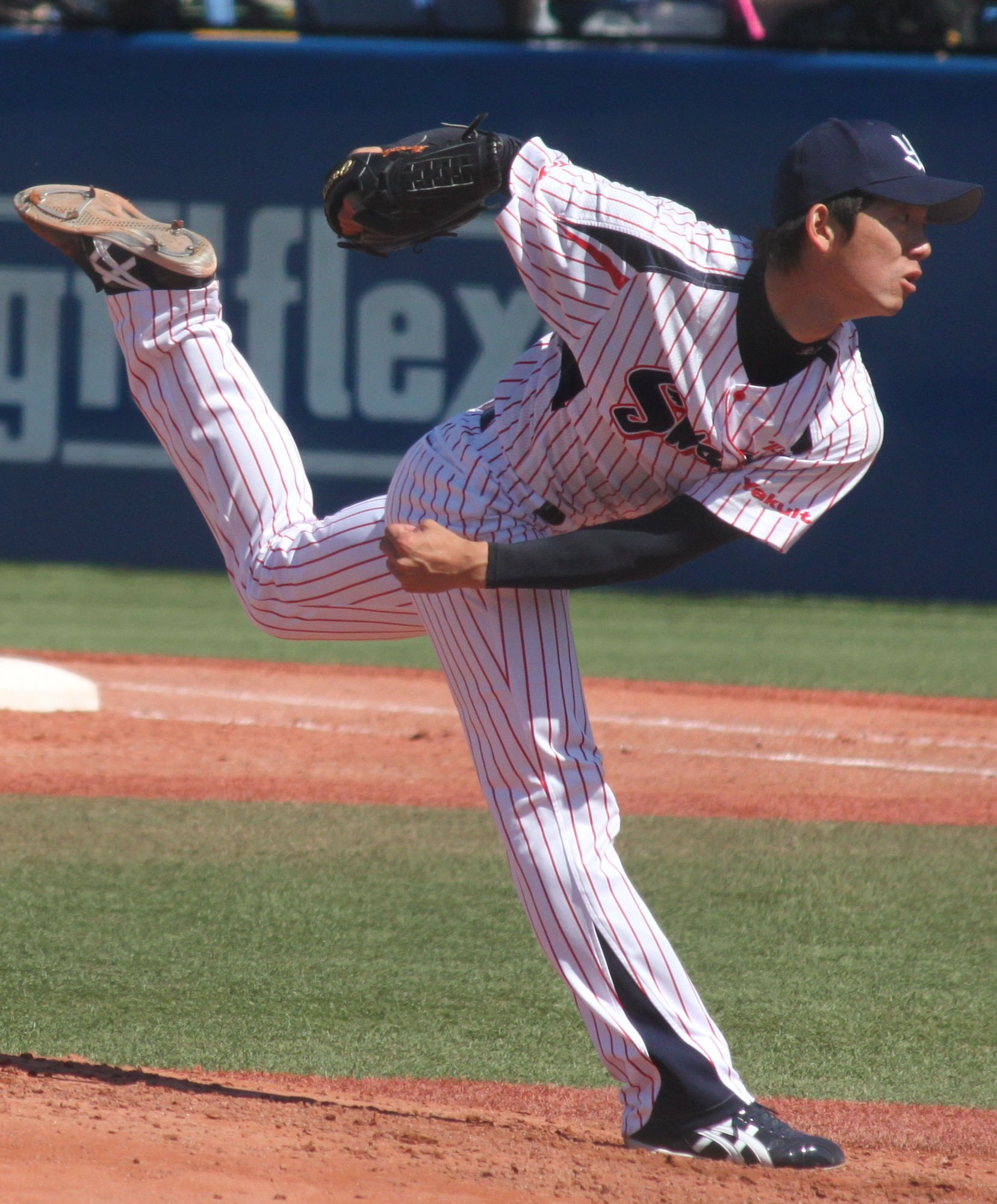 Ryosuke Yagi, pitcher of the Tokyo Yakult Swallows, at Meiji Jingu Stadium.